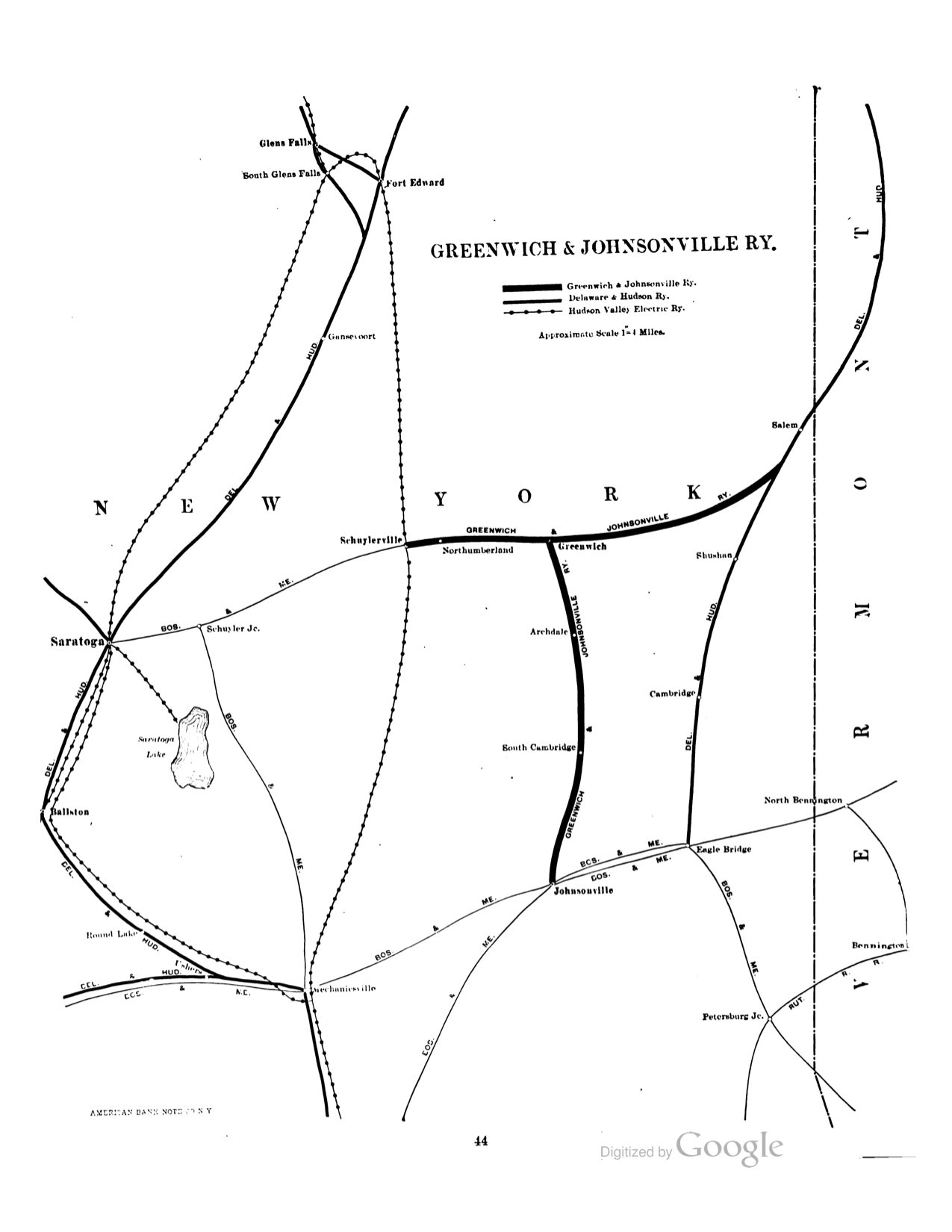 Map showing the Greenwich and Johnsonville Railway and its connections, 1907. It was owned by the Delaware and Hudson at this point.